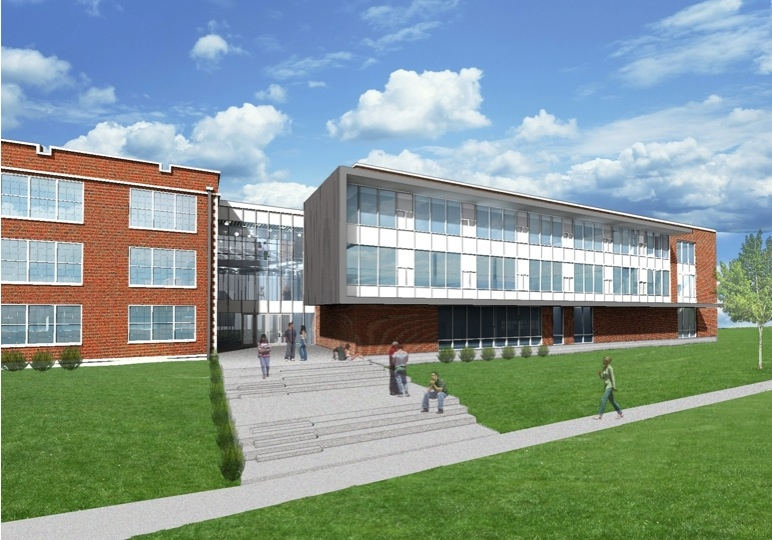 New Science (STEM) - Performing Arts Addition to Dallas Woodrow Wilson High School, an IB World School. Groundbreaking May 23, 2011. Funded by 2008 DISD bond program. Cost $14 million.